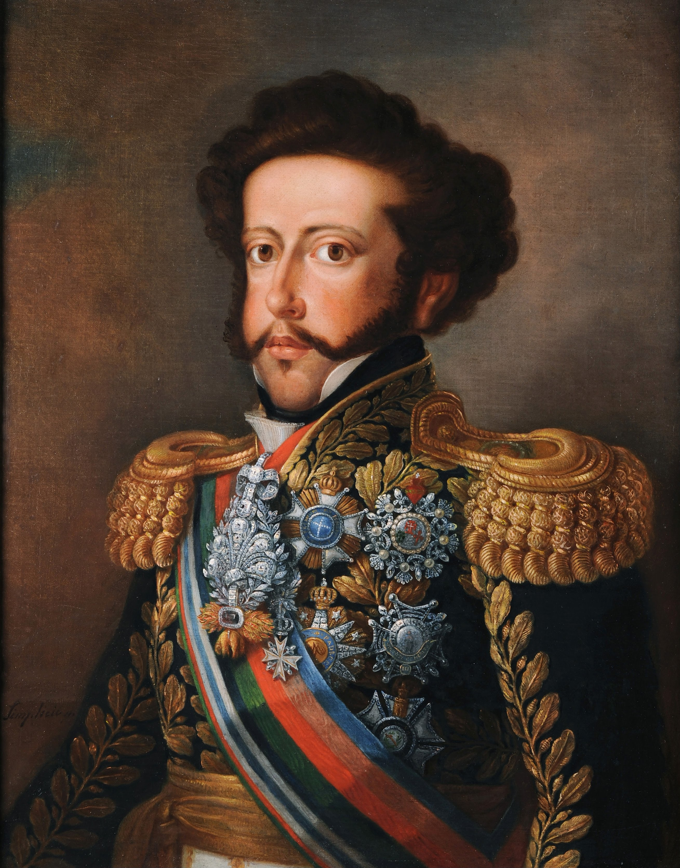 Portrait of D. Pedro I from 1826